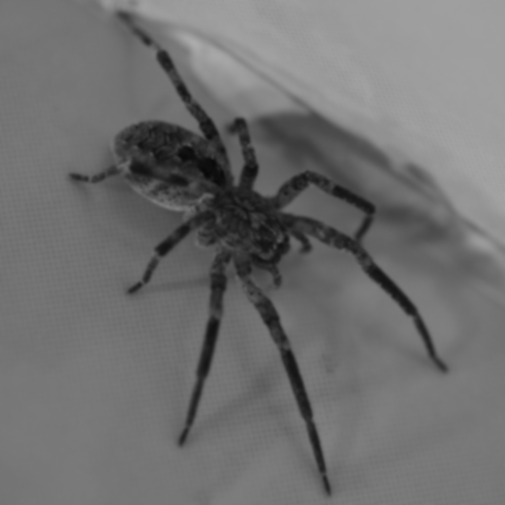 Small spider walking.